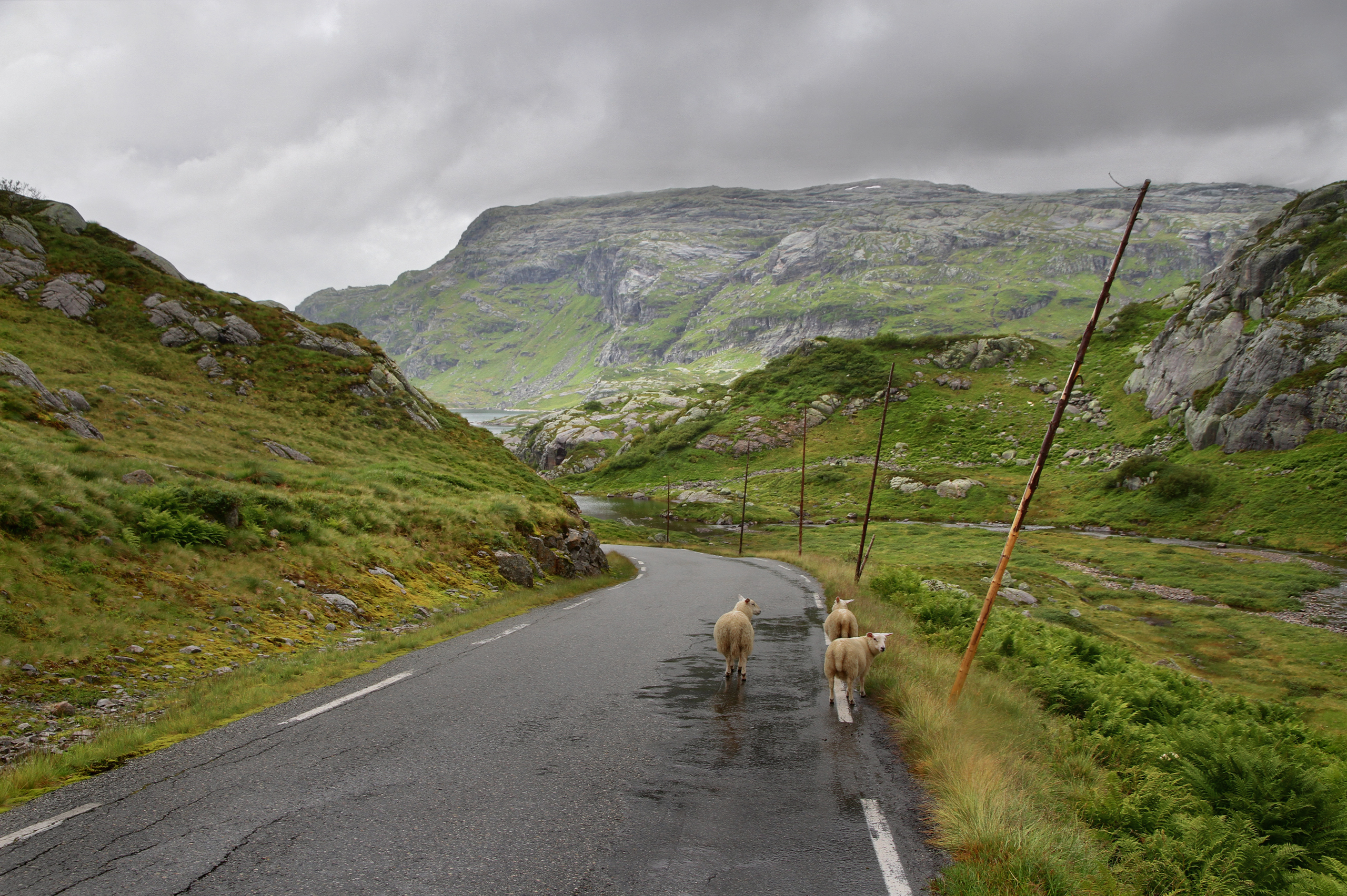 Sheep near Svartavatnet at the border of Odda and Sauda municipalities, Norway in 2011 August. The road is Fv520.